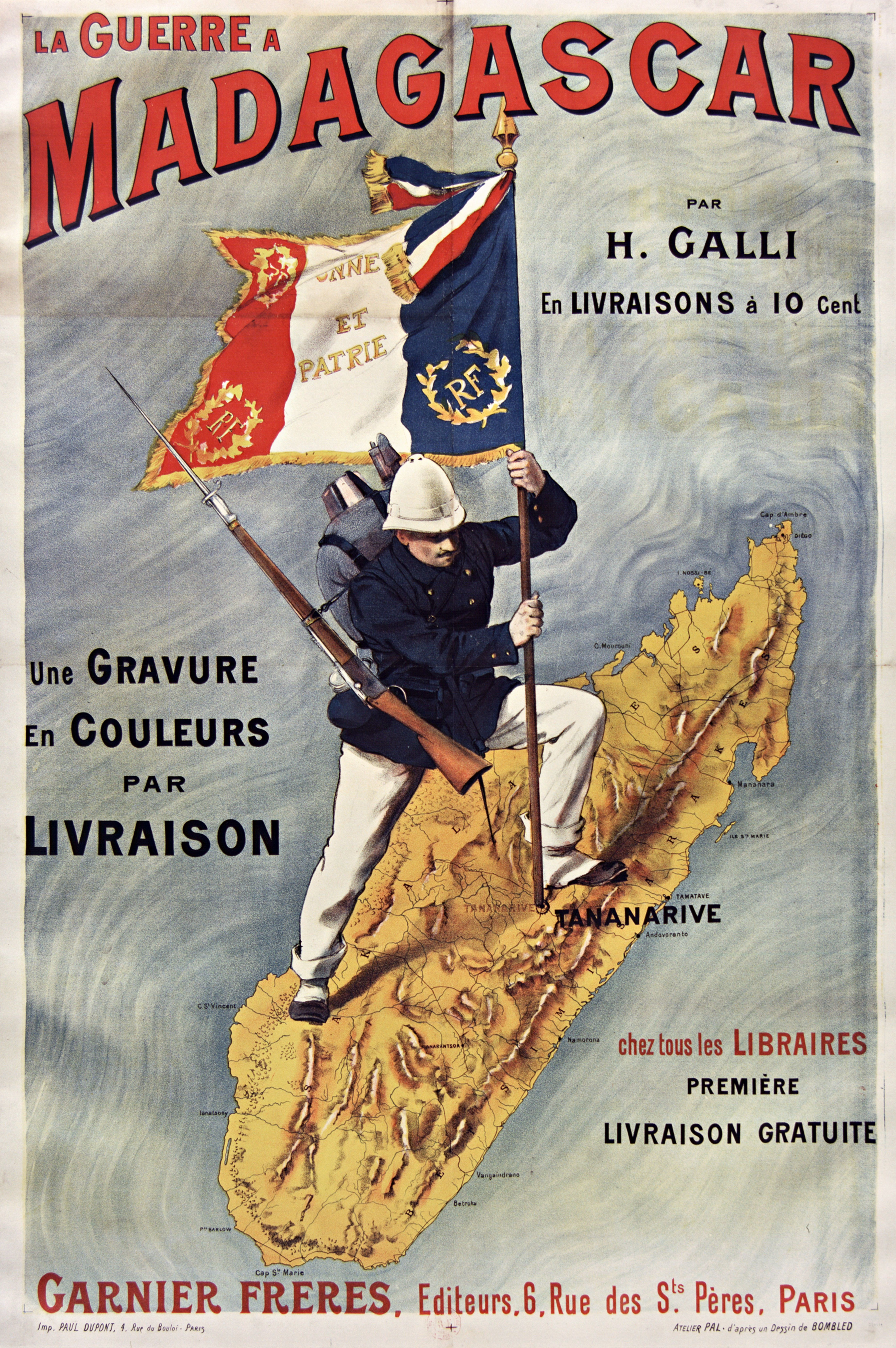 Depiction of the 1895 French war in Madagascar.